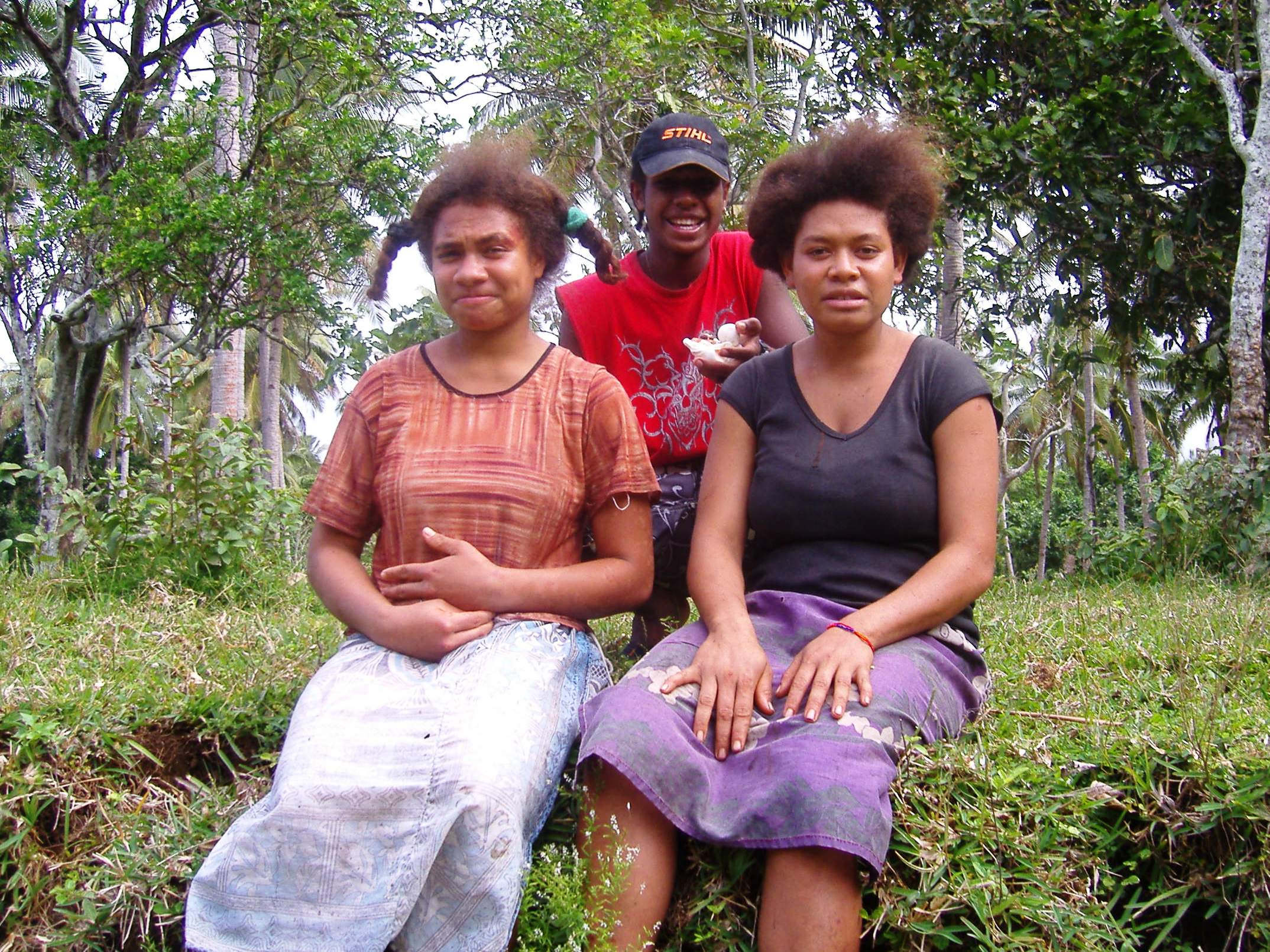 A brother and two sisters, local people, from the island of Gaua in northern Vanuatu, taken by Brad Warden in August 2006